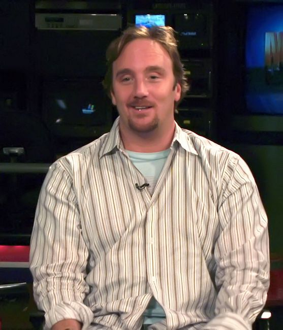 I personally took this photo of Jay Mohr when I met him in San Diego. Please acknowledge "Phil Konstantin" as the creator of this photograph.